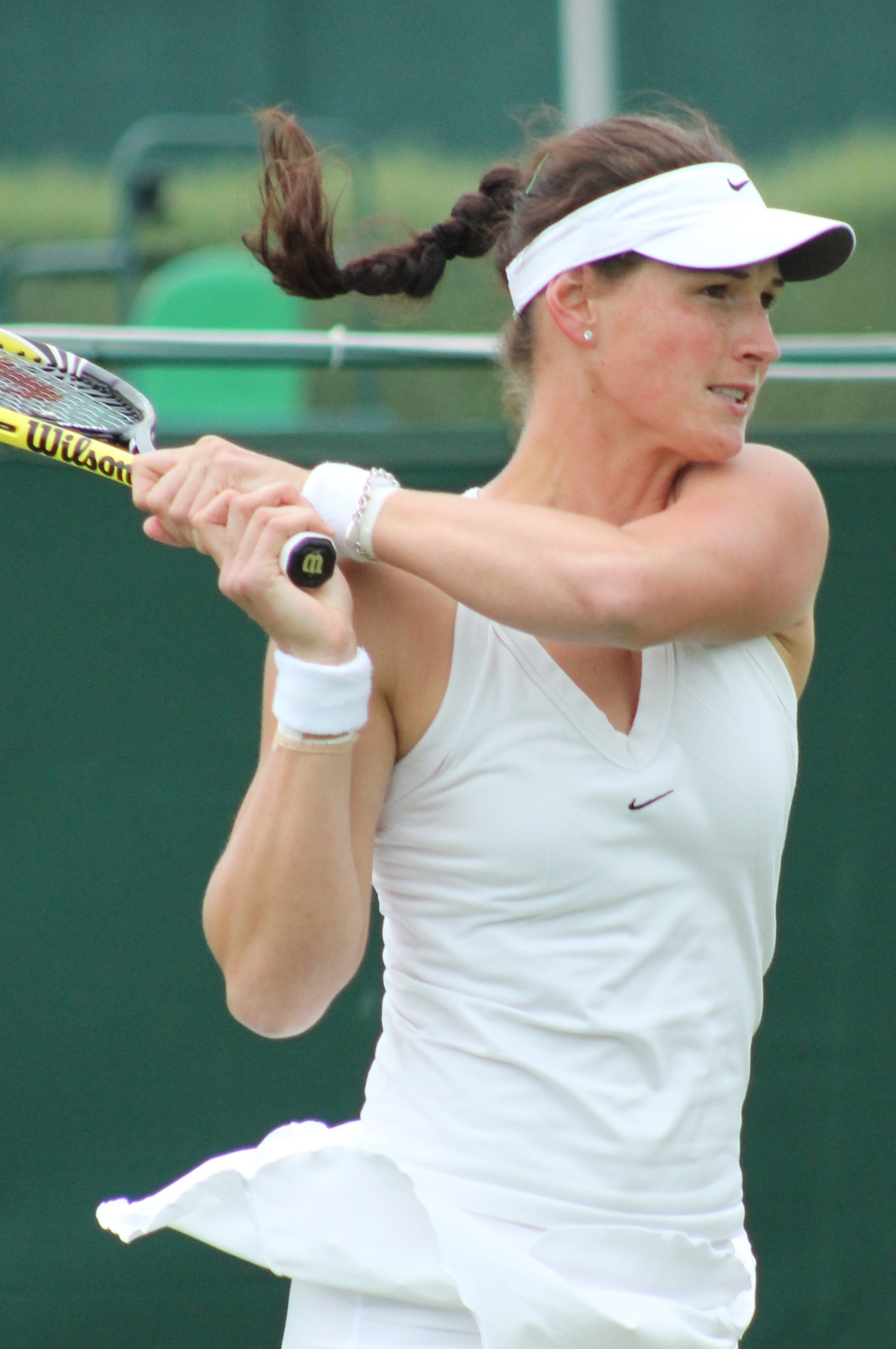 Eva Hrdinová, 2013 Wimbledon Qualifying Tournament